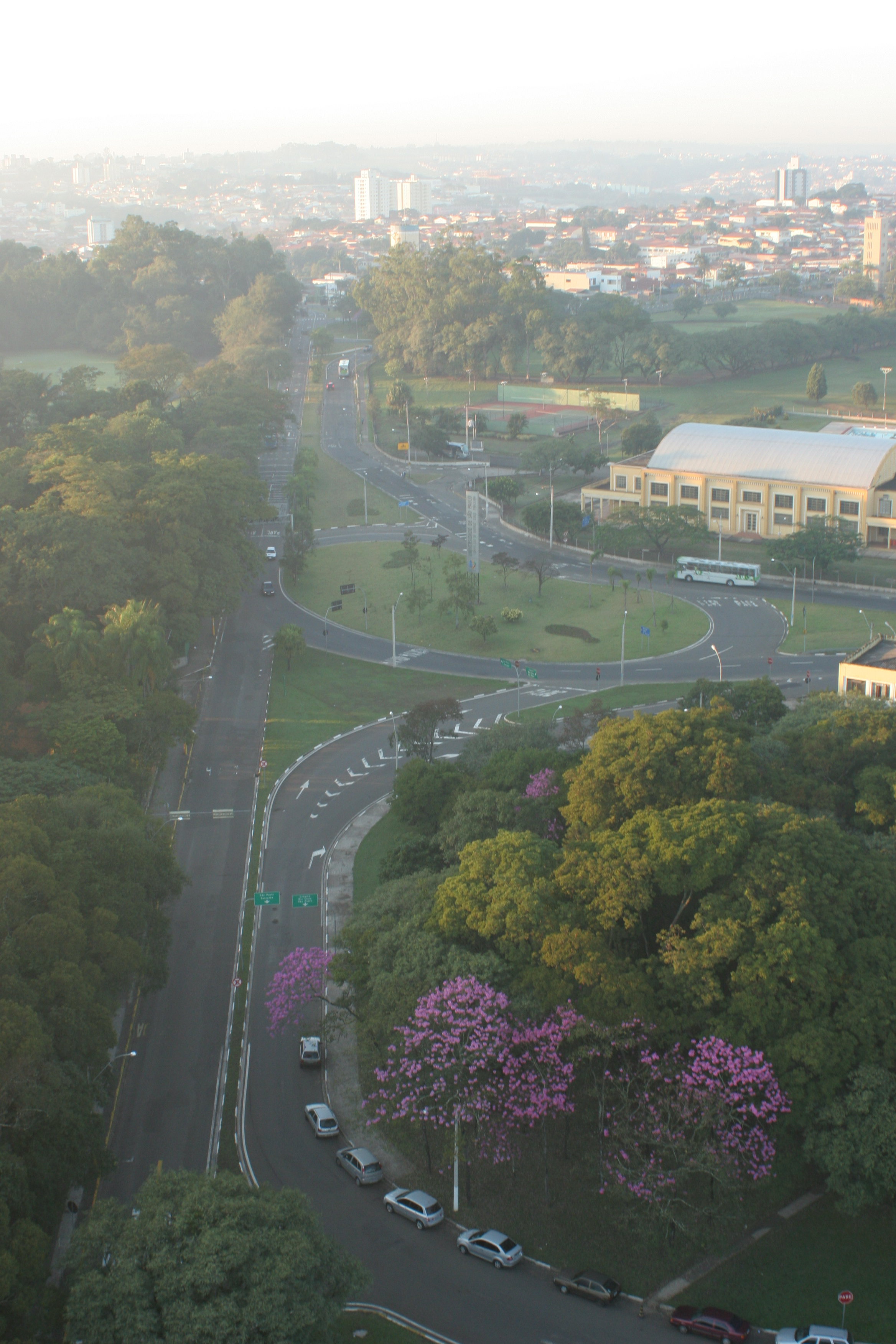 Avenues in Piracicaba, São Paulo, Brazil.